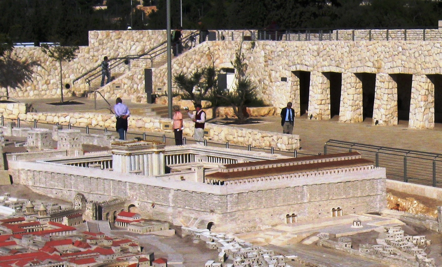 Jerusalem - model of the city in the Museum of Israel. Huldah tomb.